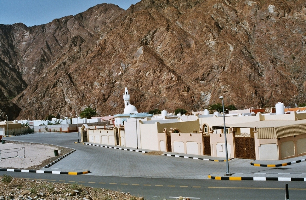 photographed by Rolf Palmberg RoPa